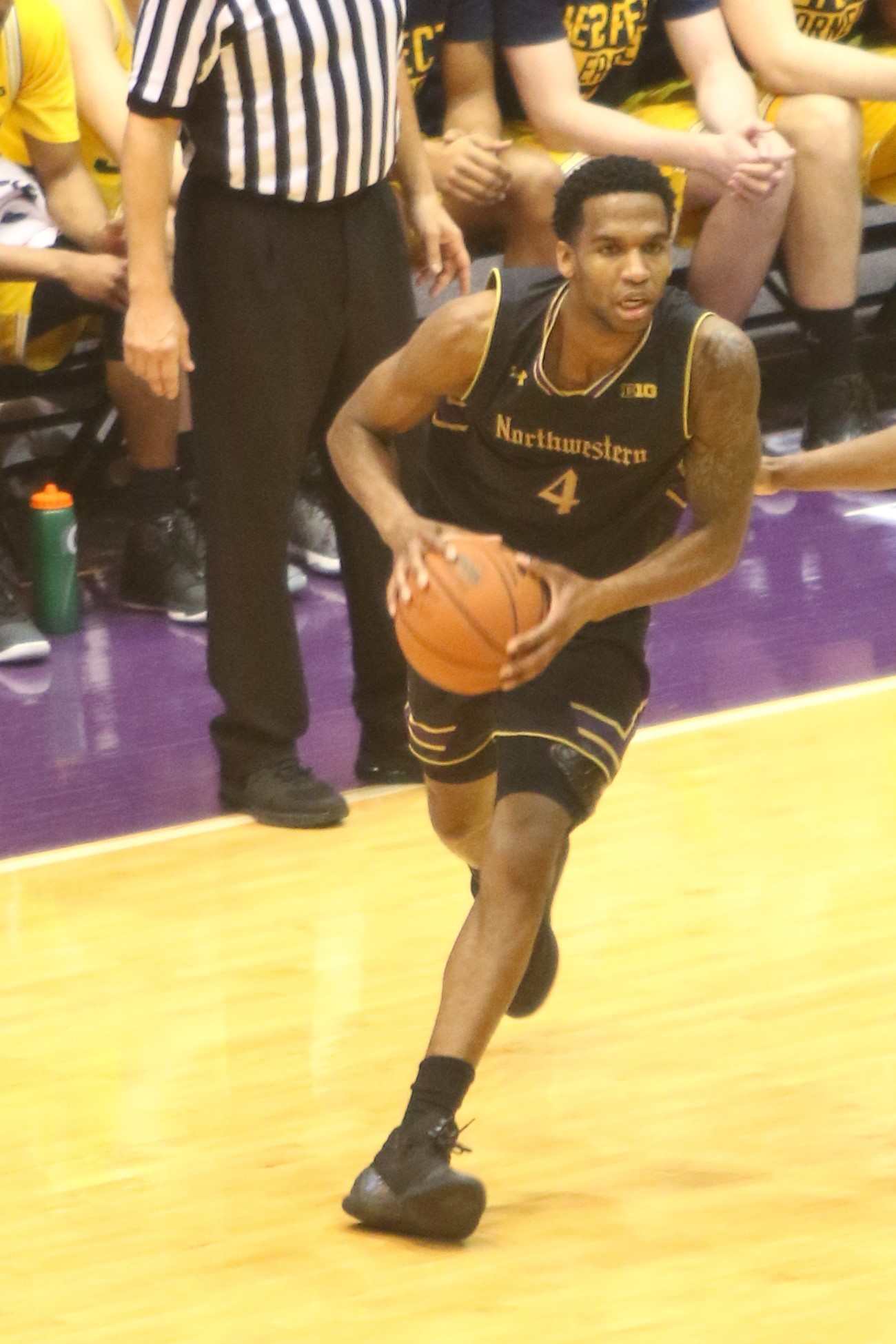 Vic Law of the w:2016–17 Northwestern Wildcats men's basketball team